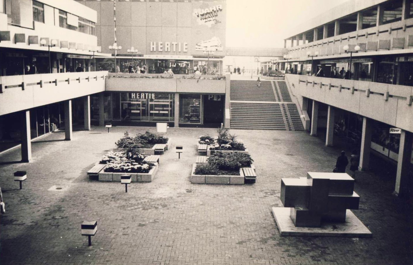 Frankfurt am Main, Nord-West-Zentrum, Mall with public art by Hans Steinbrenner